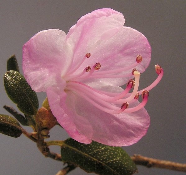 The flower of Rhododendron ledebourii